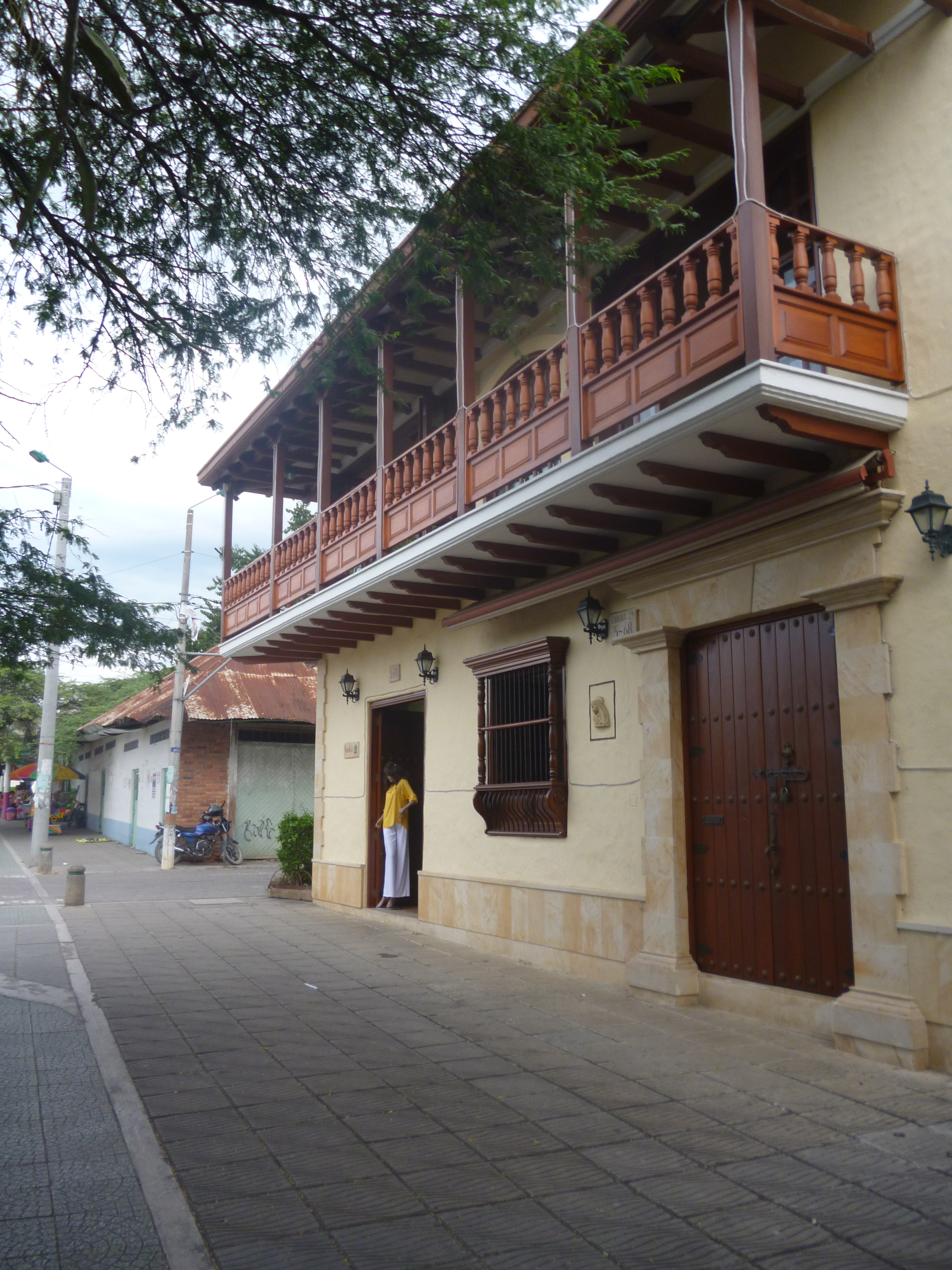 Anapoima´s colonial house